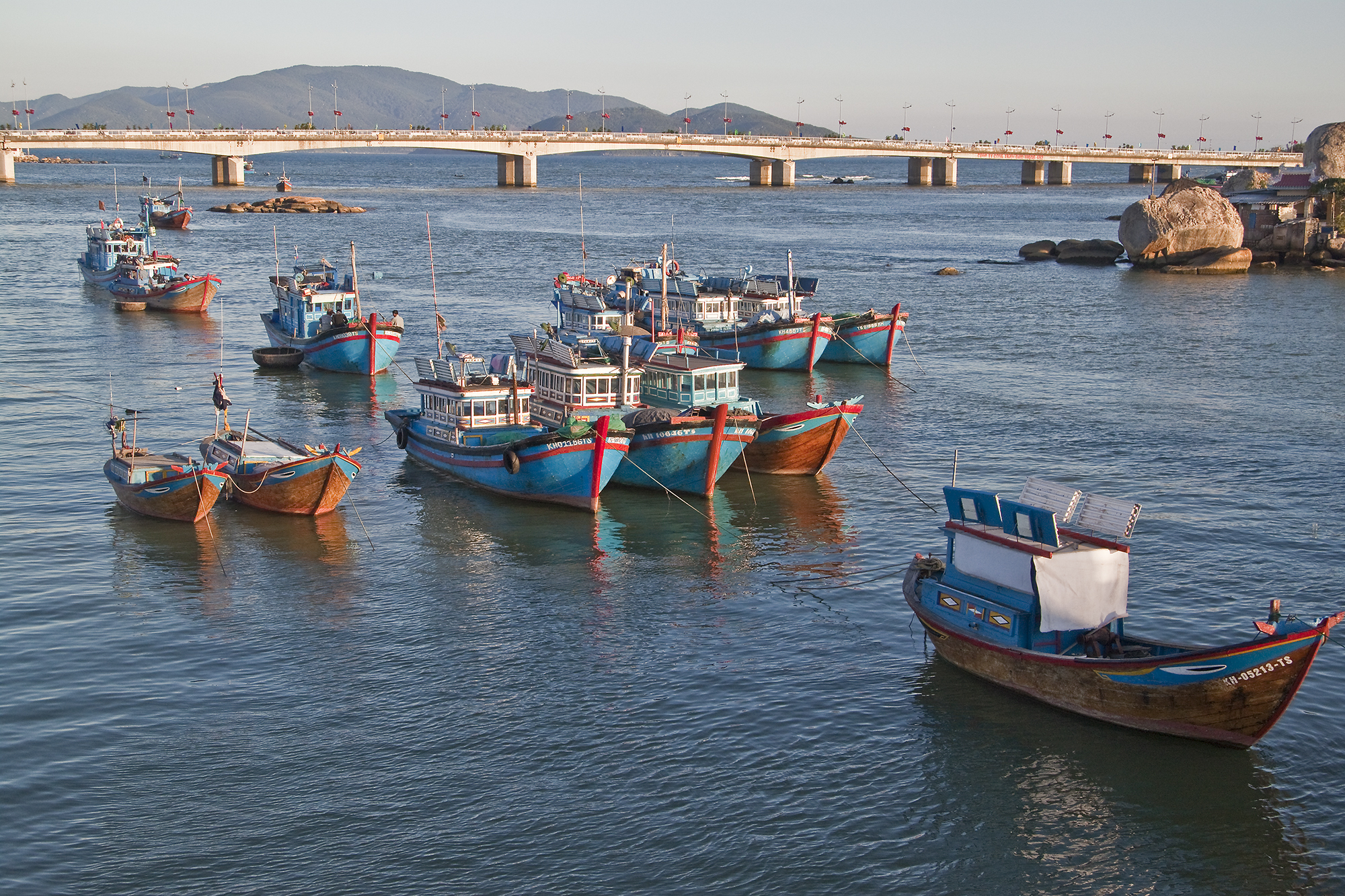 Boats on Cai river, Nha Trang, Vietnam